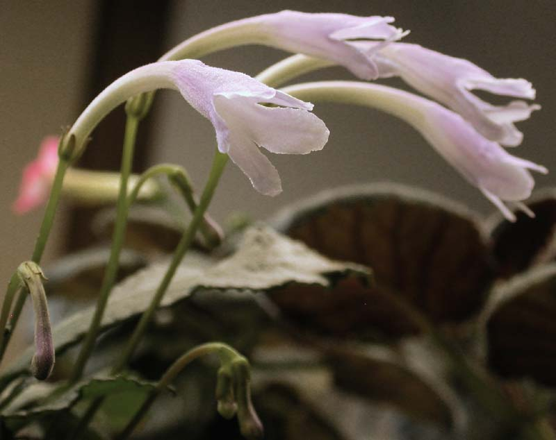 Streptocarpus lilliputana flowers